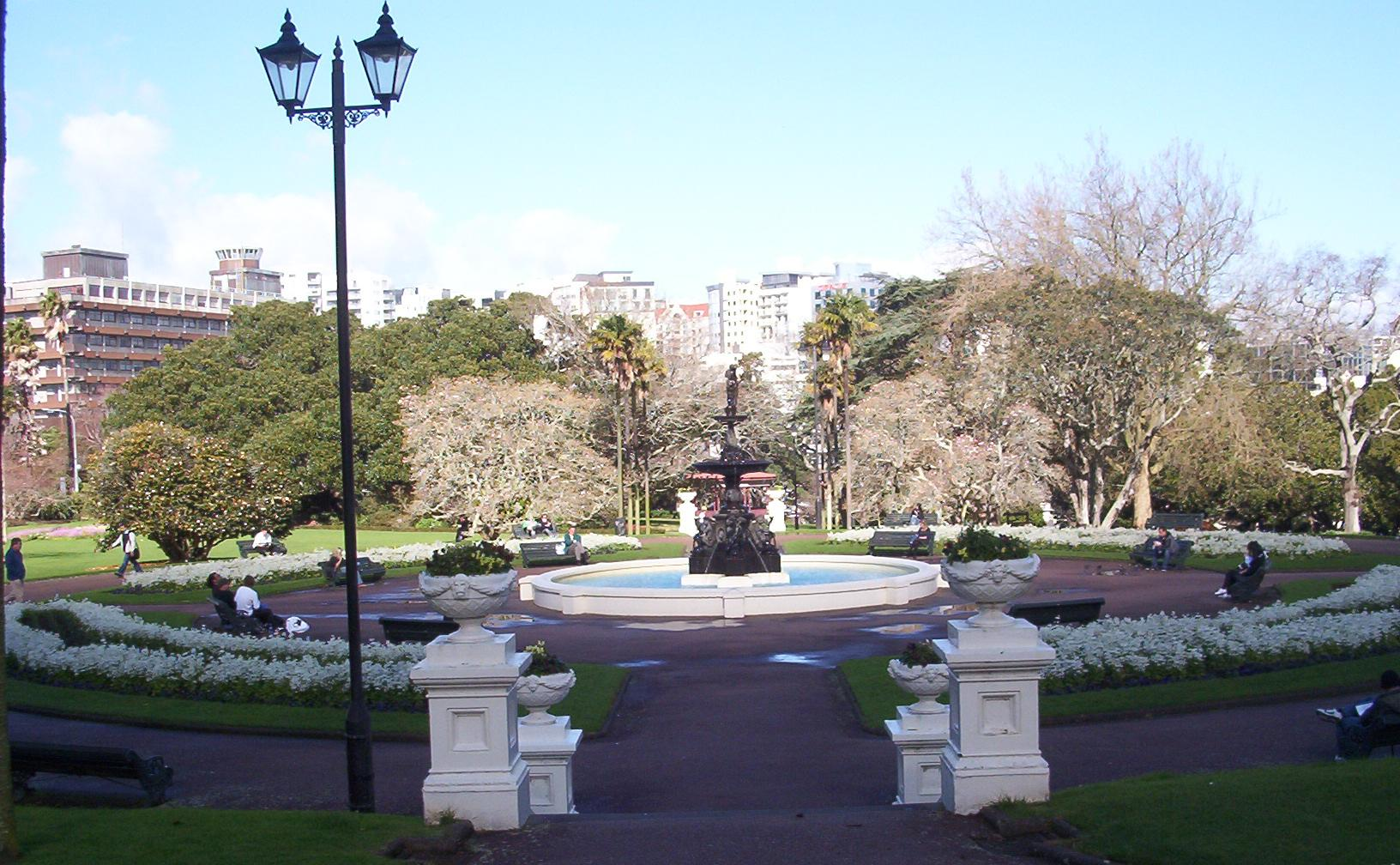 Central fountain area, Albert Park, Auckland. Image taken from northern side, Band Rotunda in background behind fountain.